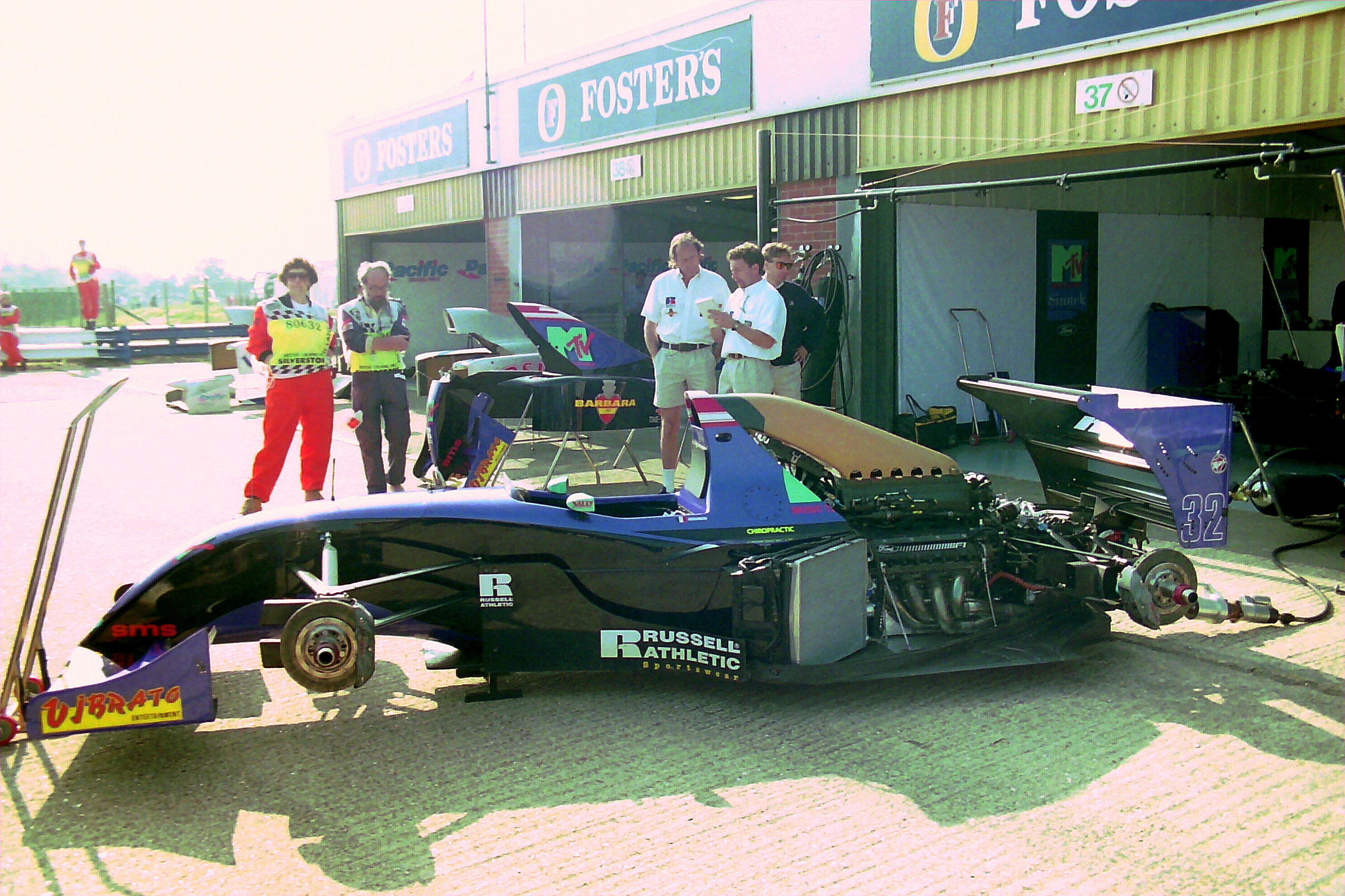 Simtek S941 in the pits at the 1994 British Grand Prix